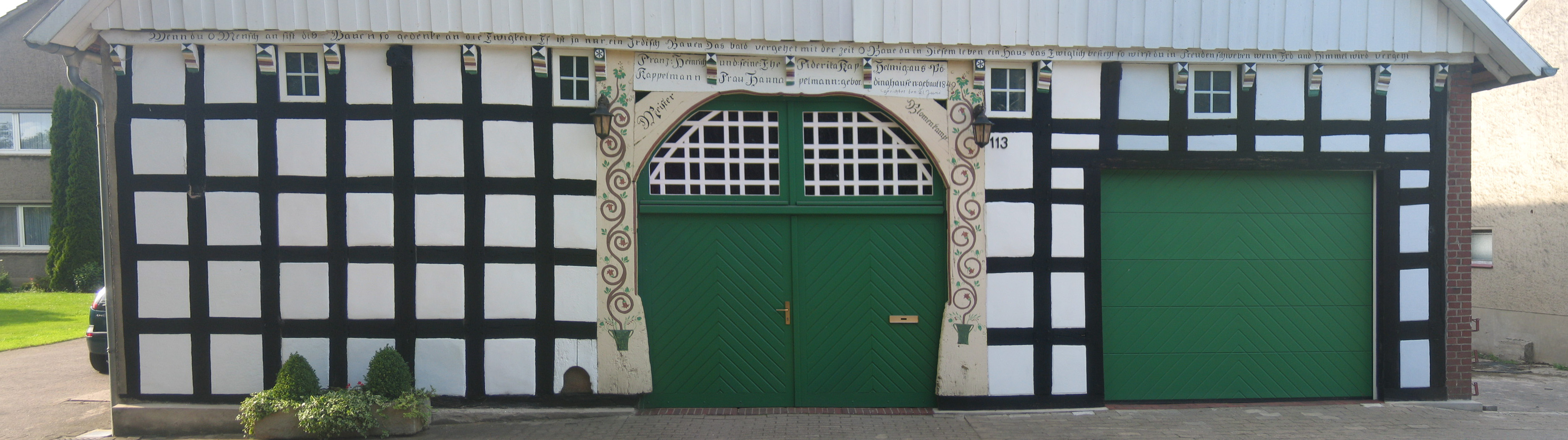 Timber framing in Rödinghausen, District of Herford, North Rhine-Westphalia, Germany.